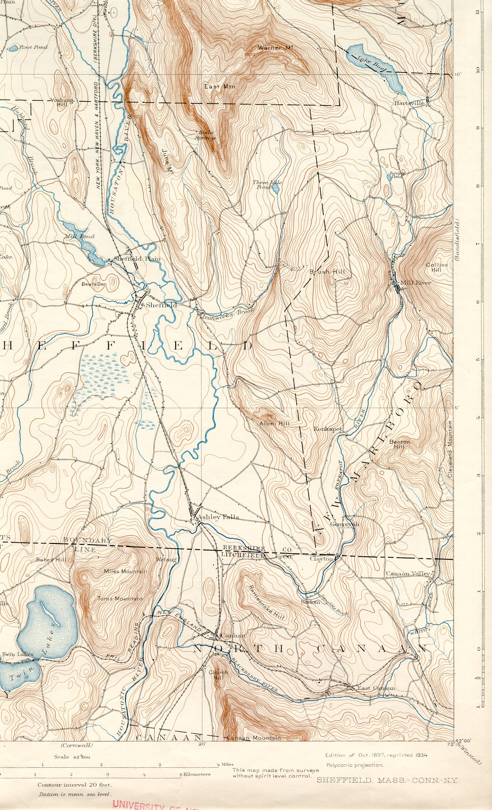 Map of Konkapot River and environs, southwest Massachusetts.